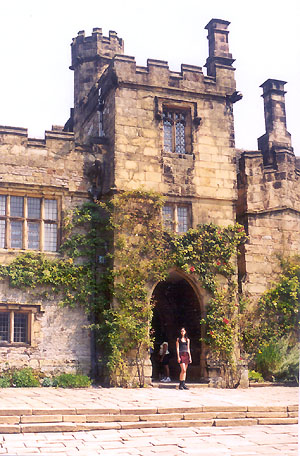 Haddon Hall, Bakewell, Derbyshire, Inglaterra